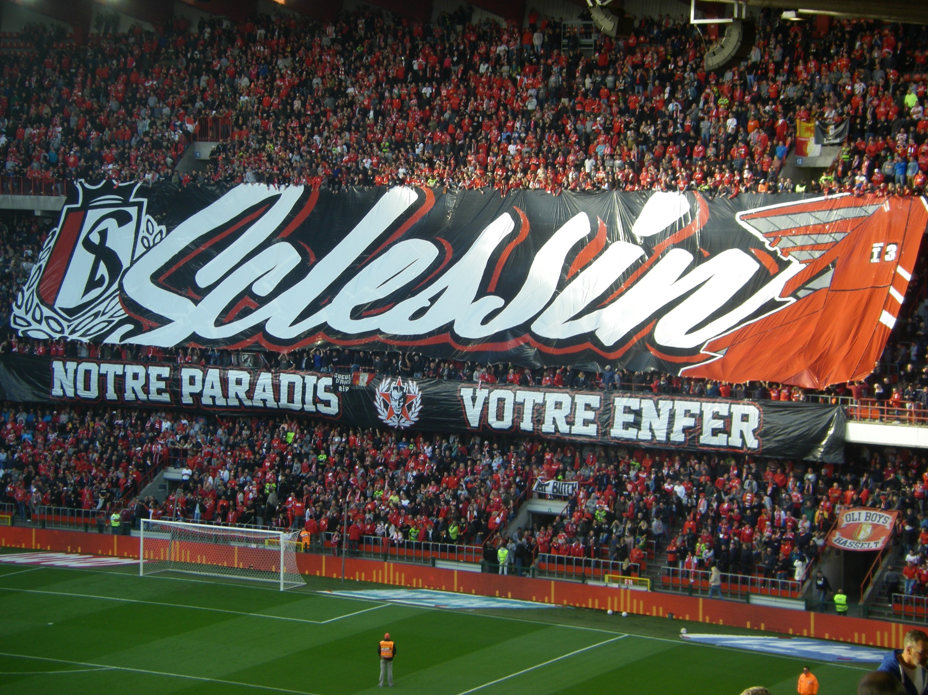 Transparent of the fans of Standard de Liège prior to a derby match against Royal Charleroi Sporting Club (0:0) on September 10, 2017. It reads "Sclessin" (name of the stadium and the district in which it lies): "Notre Paradis - Votre Enfer" (this means "Our Paradise - Your Hell")